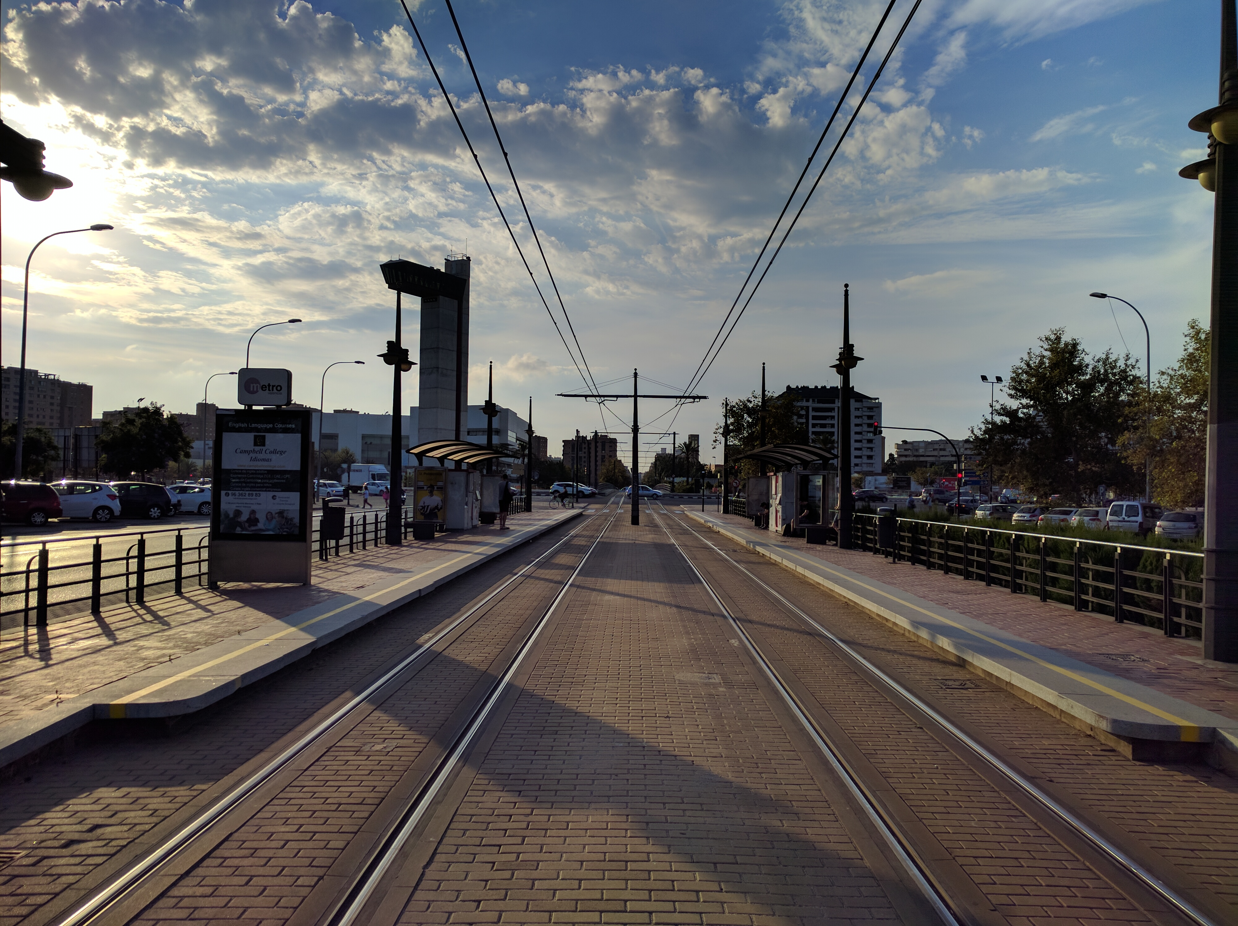 Platforms of the Universitat Politècnica station of Metrovalencia.